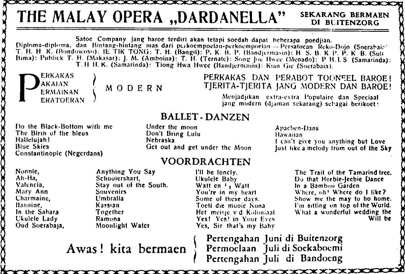 Advertisement for the Opera Dardanella troupe